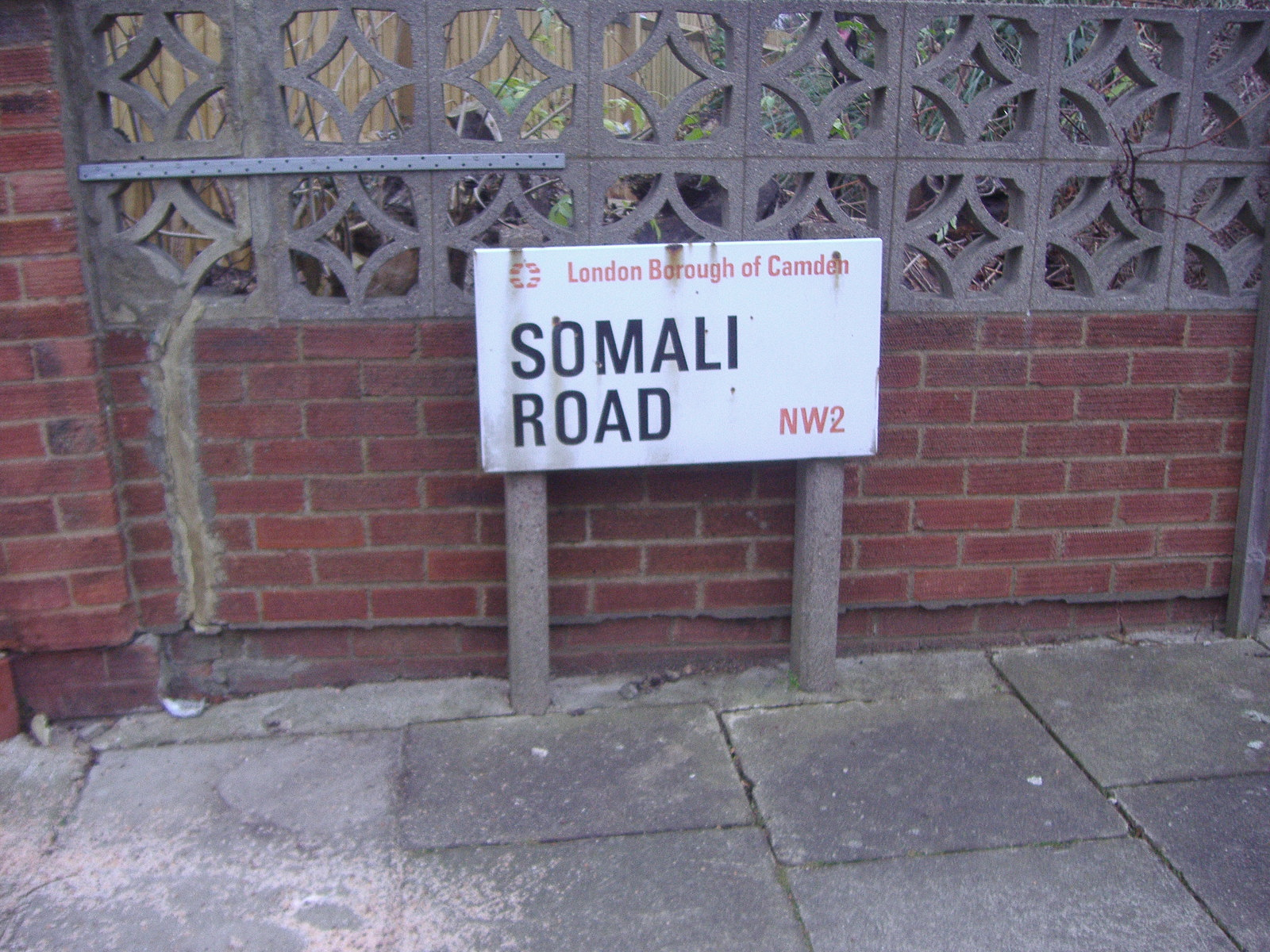 Sign on Somali Road in the London Borough of Camden.